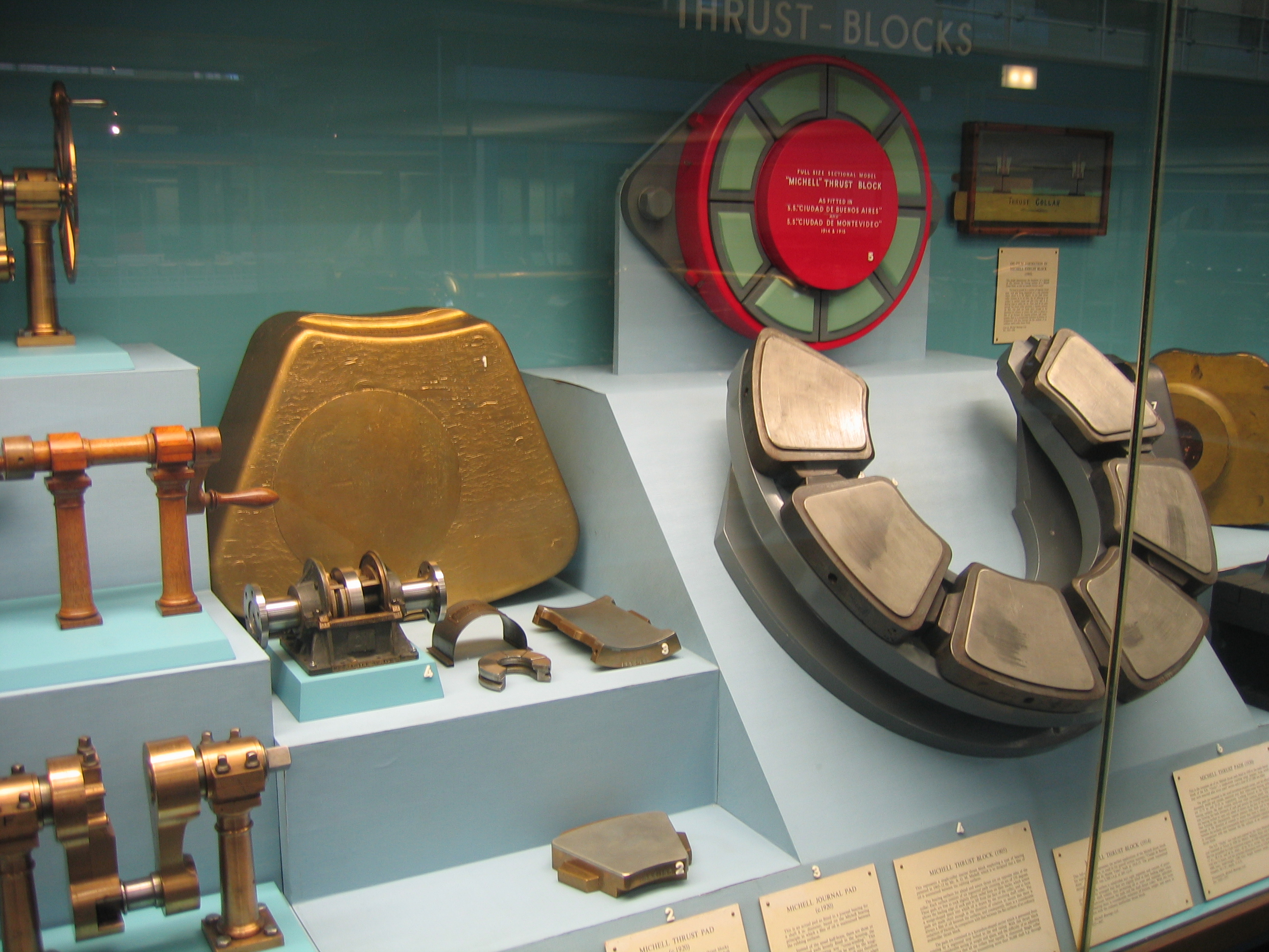 Thrust blocks at the Science Museum. Thrust blocks are a specialised form of thrust bearing used in ships, to resist the thrust of the propellor shaft and transmit it to the hull. The large horseshoe thrust block represents a set of Michell thrust pads, as fitted to the 1,000 ton cargo steamship SS Orchy in 1930. These were removed after seven years' service and 227,000 miles. The ship had a single triple-expansion steam engine of 1,500 ihp and made 13 knots on trial. The effective outside diameter of the pads is just under 24". The single large gold-coloured pad is a wooden model of one of the pads fitted to HMS Hood. The ship had four screws, each with a single thrust block using twelve of these pads, six used for going forward, six astern. Each pad was made of bronze, but faced with white metal on the shaft side. The rear face was made spherical, to allow the pad to tilt according to Michell's principles for a wedge-shaped lubricant film. Each shaft was 24" in diameter and ran at 210 rpm to transmit 36,000 shp, giving rise to a force of 17 tons on each pad.